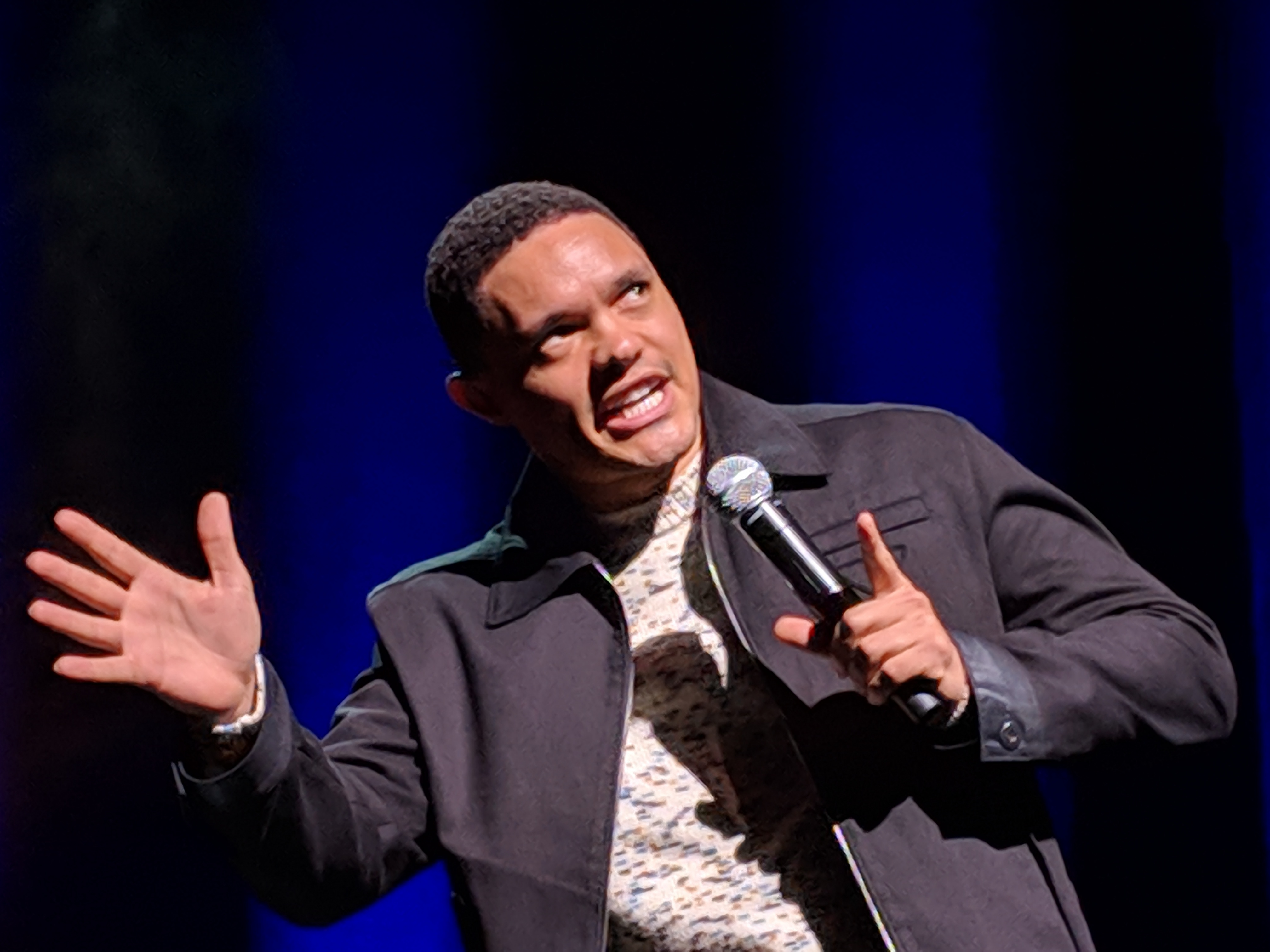 Taken at a performance of "Trevor Noah: Loud and Clear" at the Aronoff Center in downtown Cincinnati, Ohio. Photos taken on Friday February 1, 2019 during the 7:30pm show (the first of two shows that night).